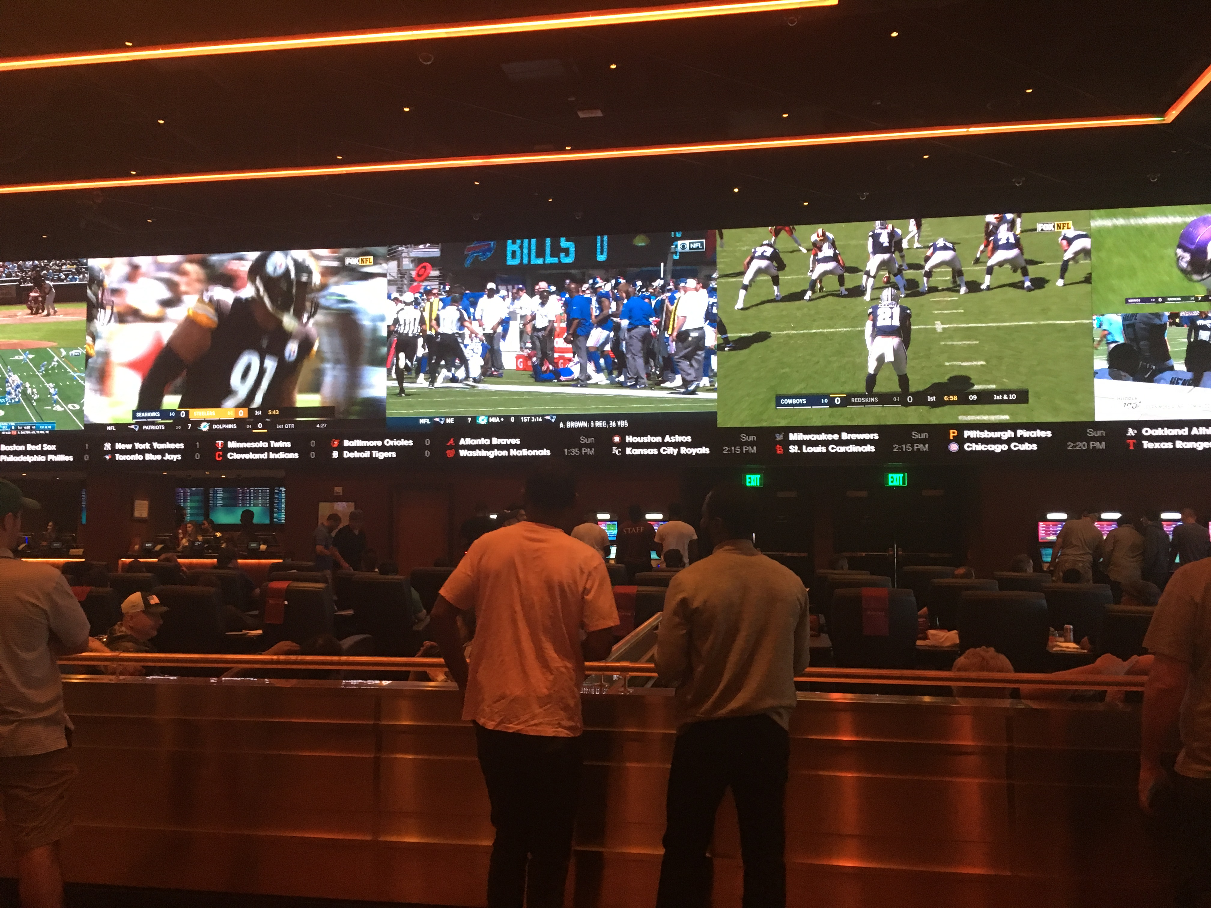 The Parx Sportsbook at Parx Casino in Bensalem Township, Pennsylvania on a Sunday during National Football League season